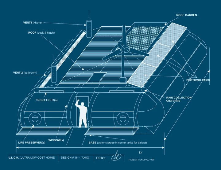 Autonomous disaster resistant floating home manufactured from waste materials.